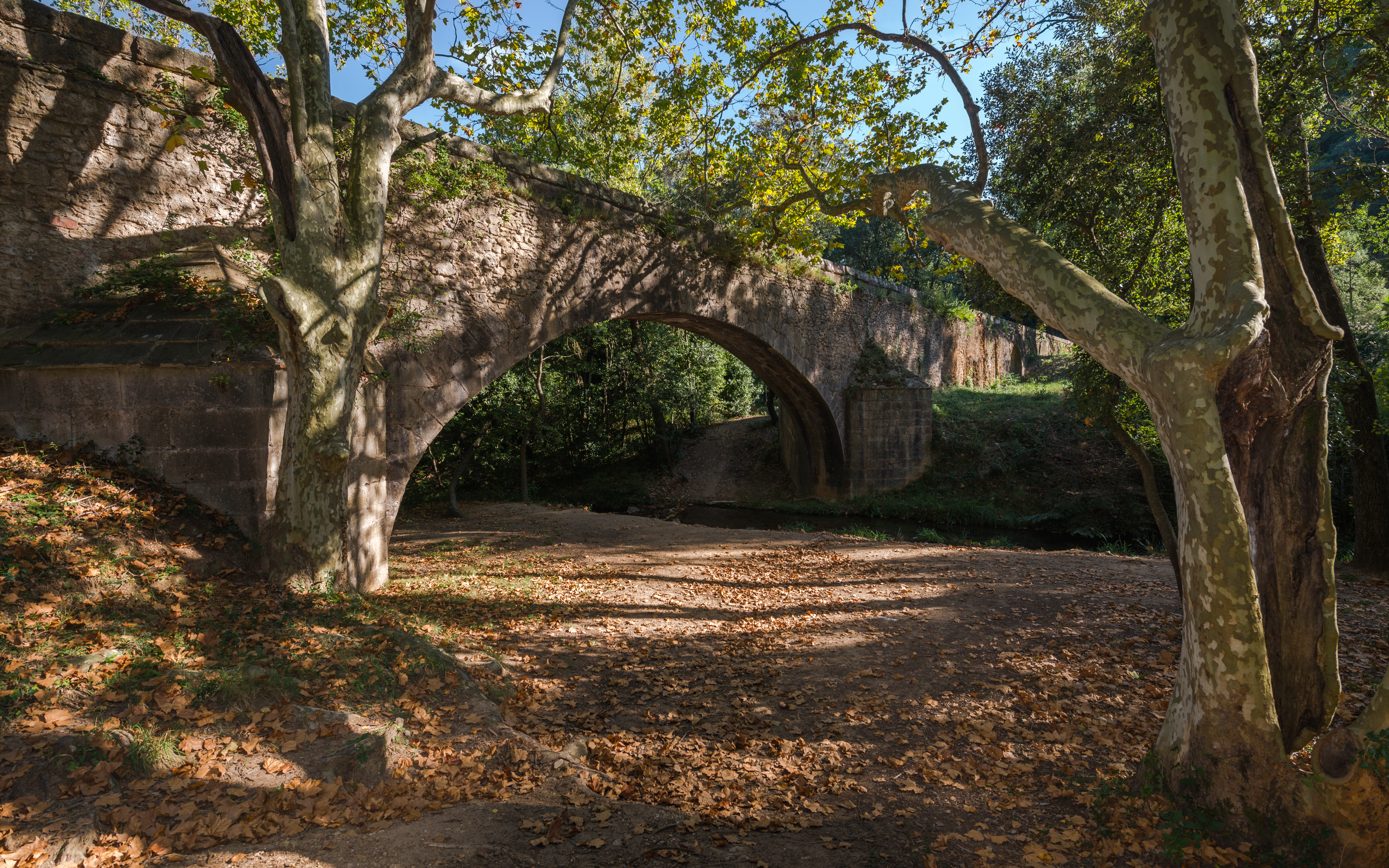 The "Pont de l'Amour" (Bridge of Love) is the part of an aqueduct which overhang the stream "La Dourbie". Aqueduct which date from the second half of the XVIIth century and used to convey water from the neighboring commune of Mourèze. Villeneuvette, Hérault, France.